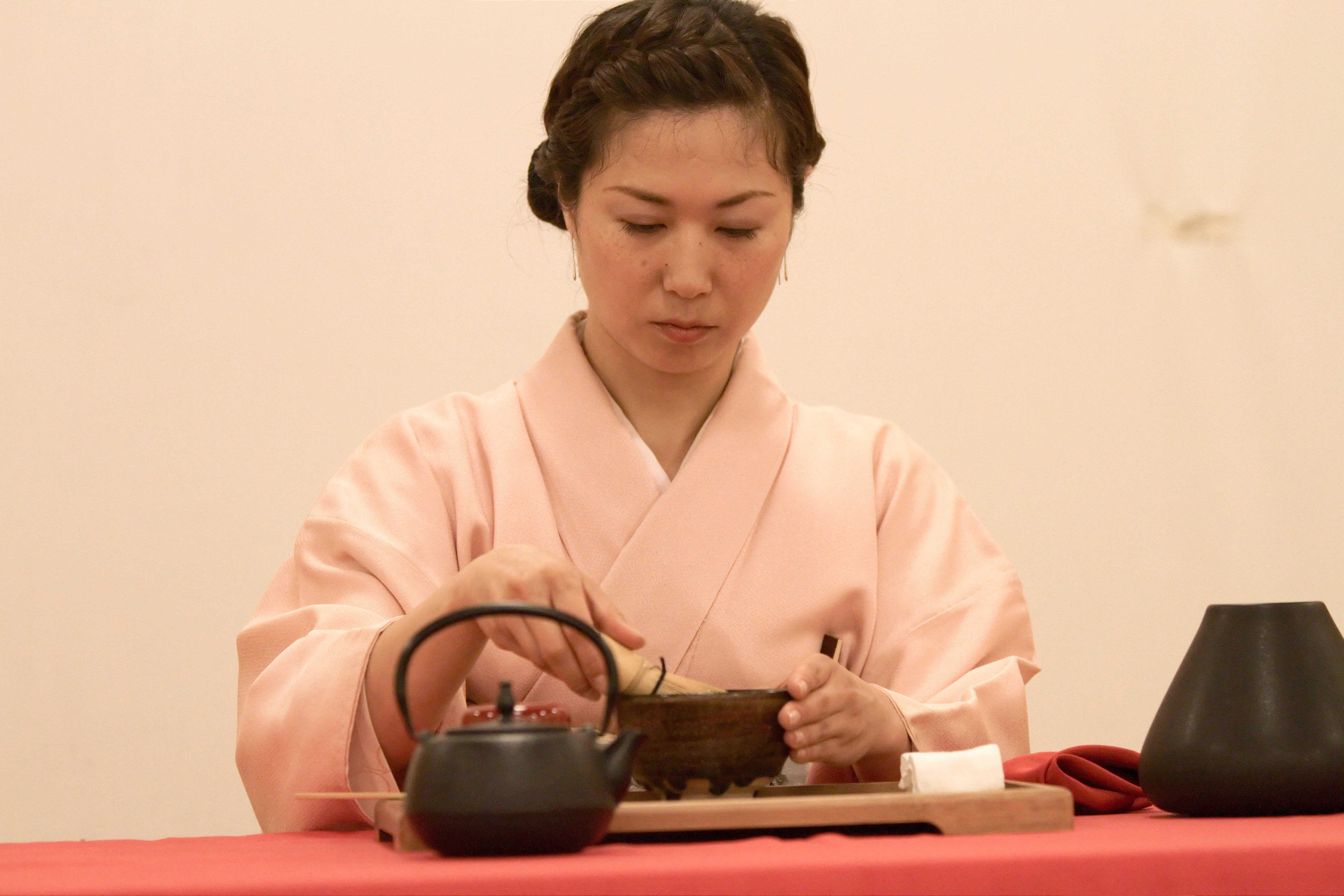 Japanese tea ceremony at Japan Matsuri 2010 (Montpellier, France).